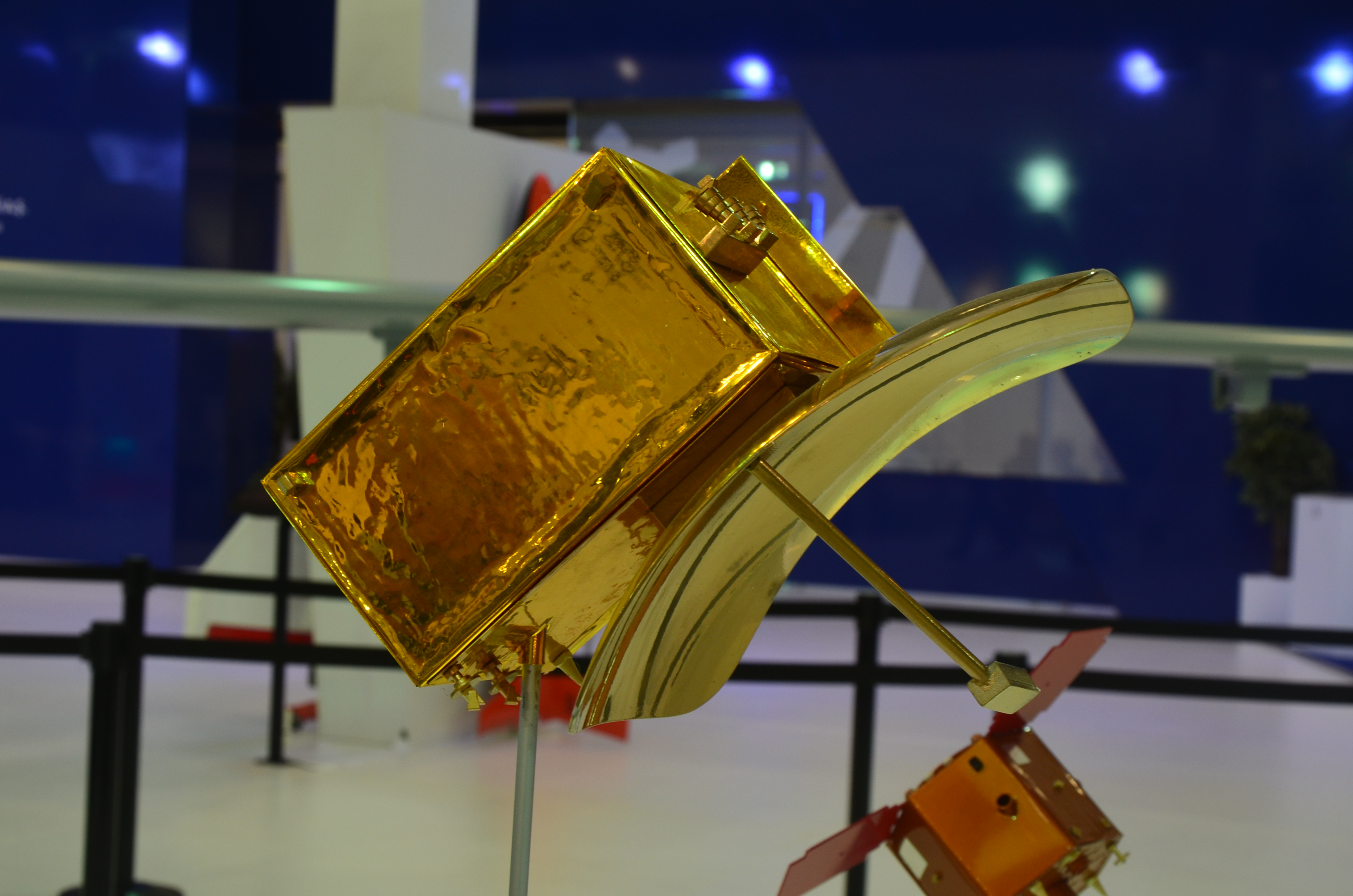 SAR earth observation satellite Göktürk-3 (model) of Turkish Aerospace Industries at IDEF 2015